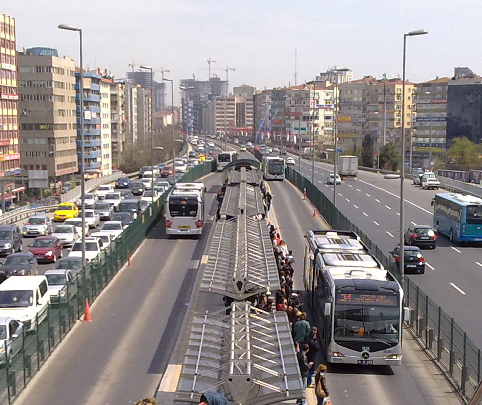 Metrobus (İstanbul) Mecidiyeköy station